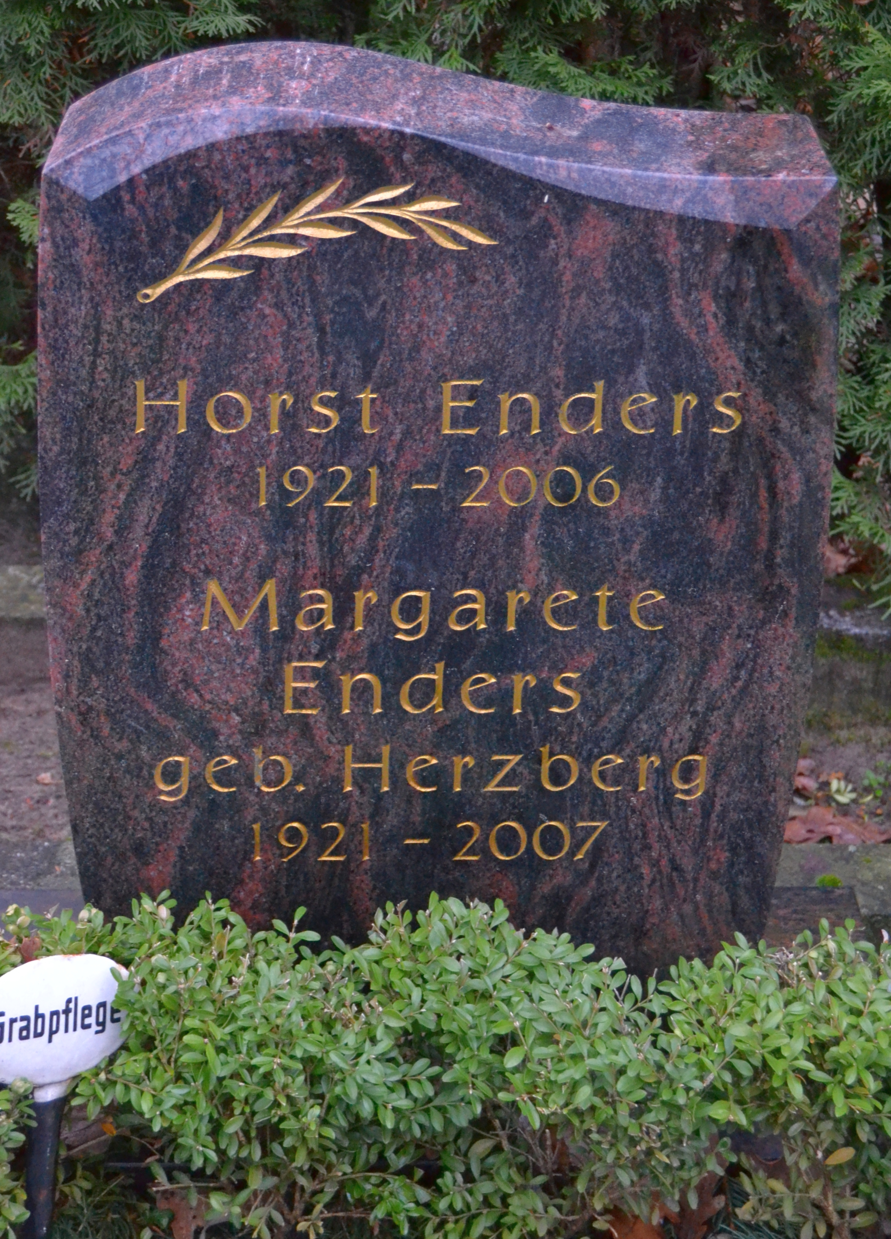 Waldfriedhof of Schöneiche bei Berlin in December 2013.